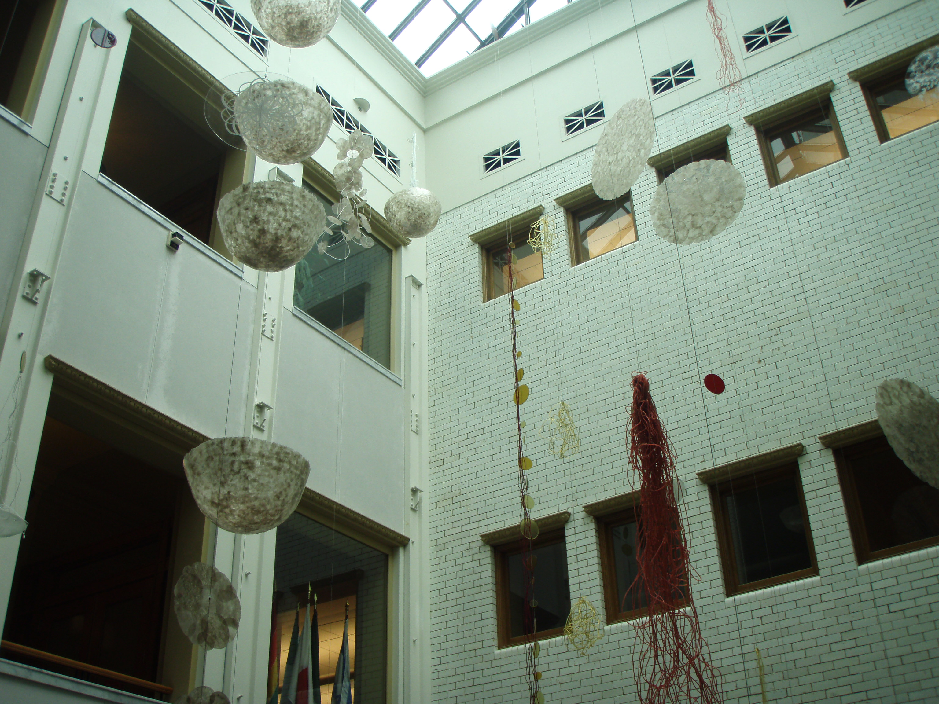 North light well in Portland City Hall in Portland.